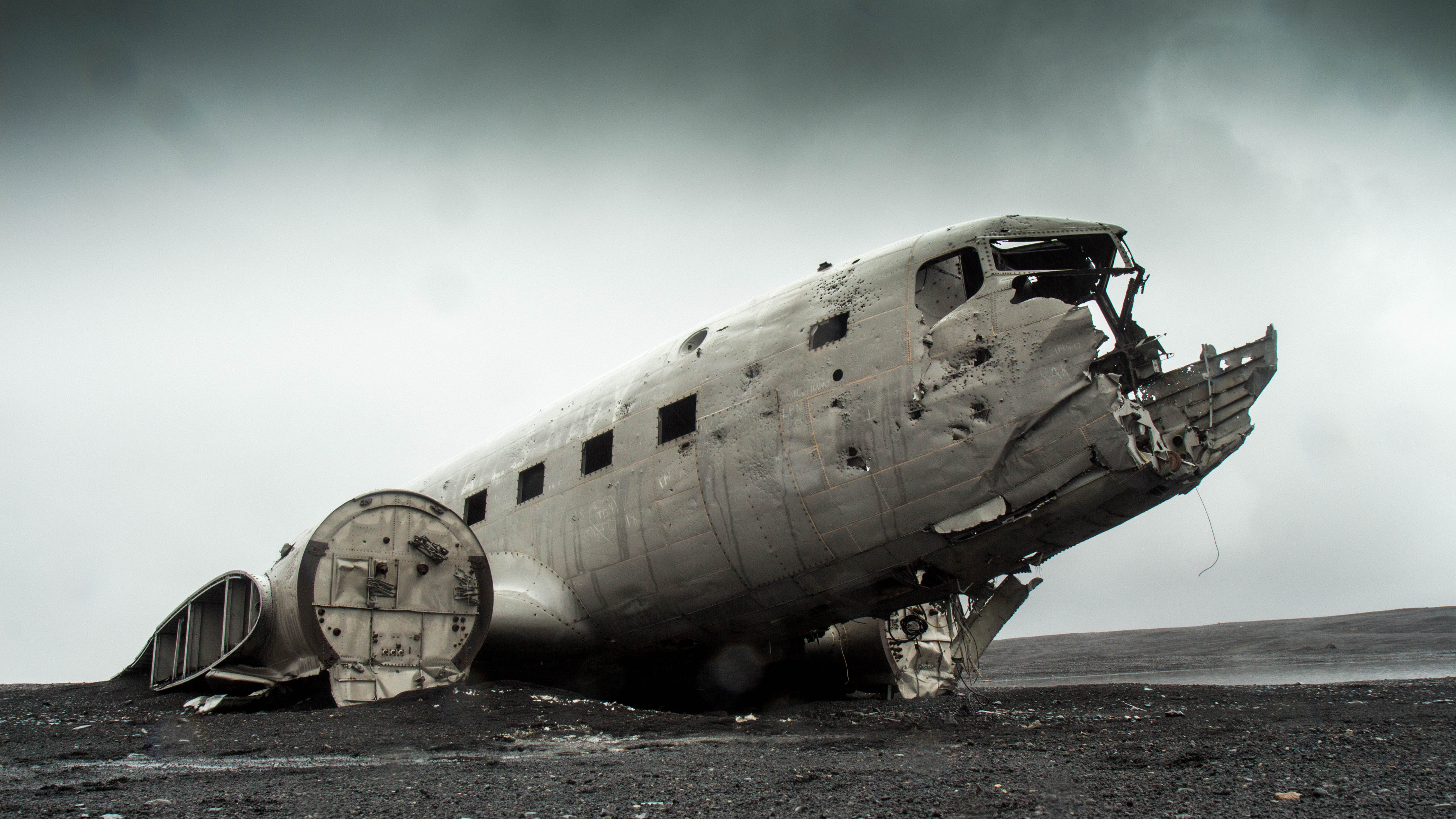 Blair Fraser 2015-04-17